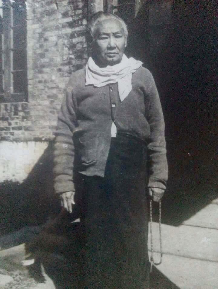 Princess Myat Phaya was a Burmese princess and senior member of the Royal House of Konbaung. she is the third daughter of the last ruling king of Burma, King Thibaw.